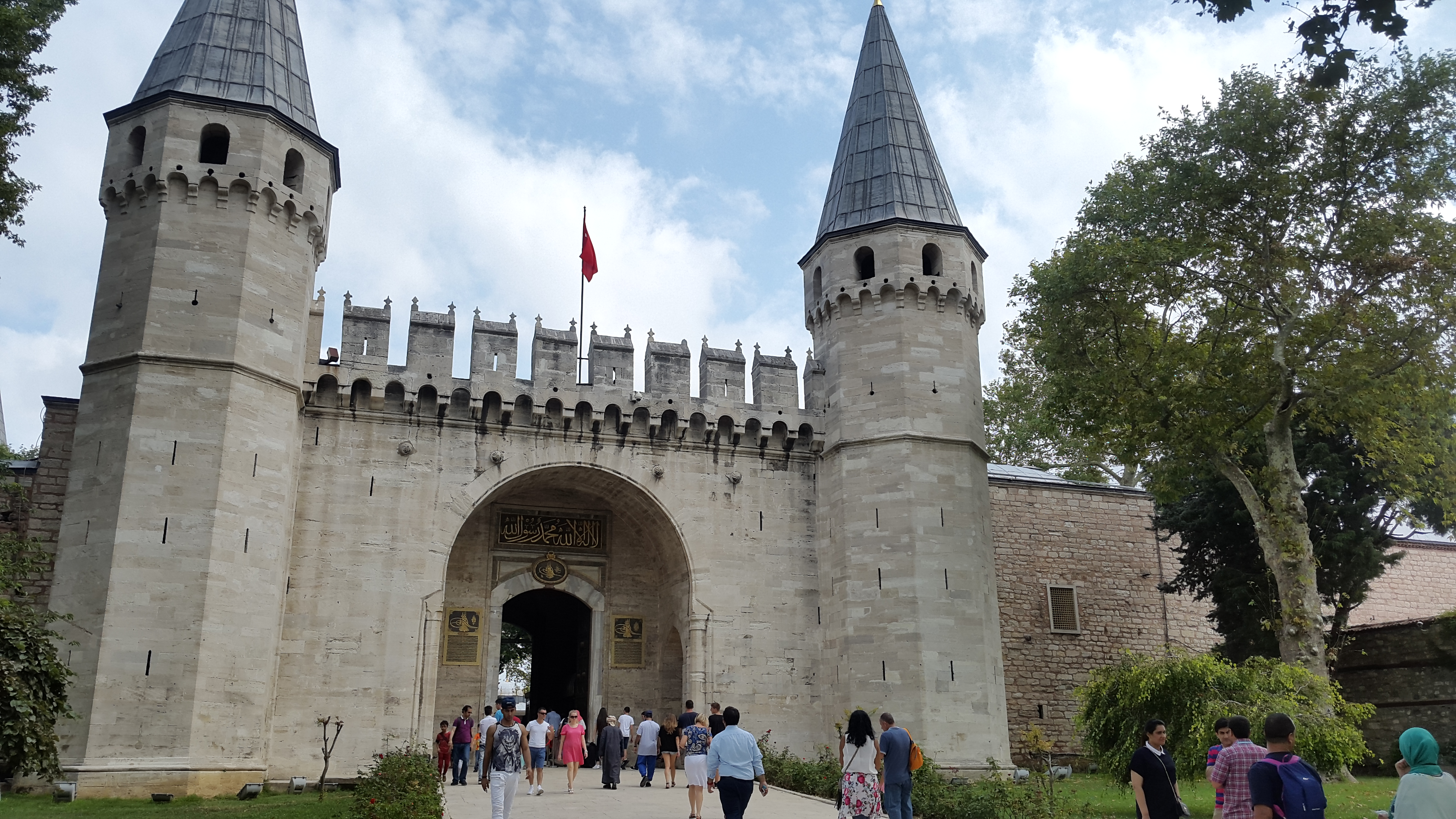 Topkapı Main Entrance